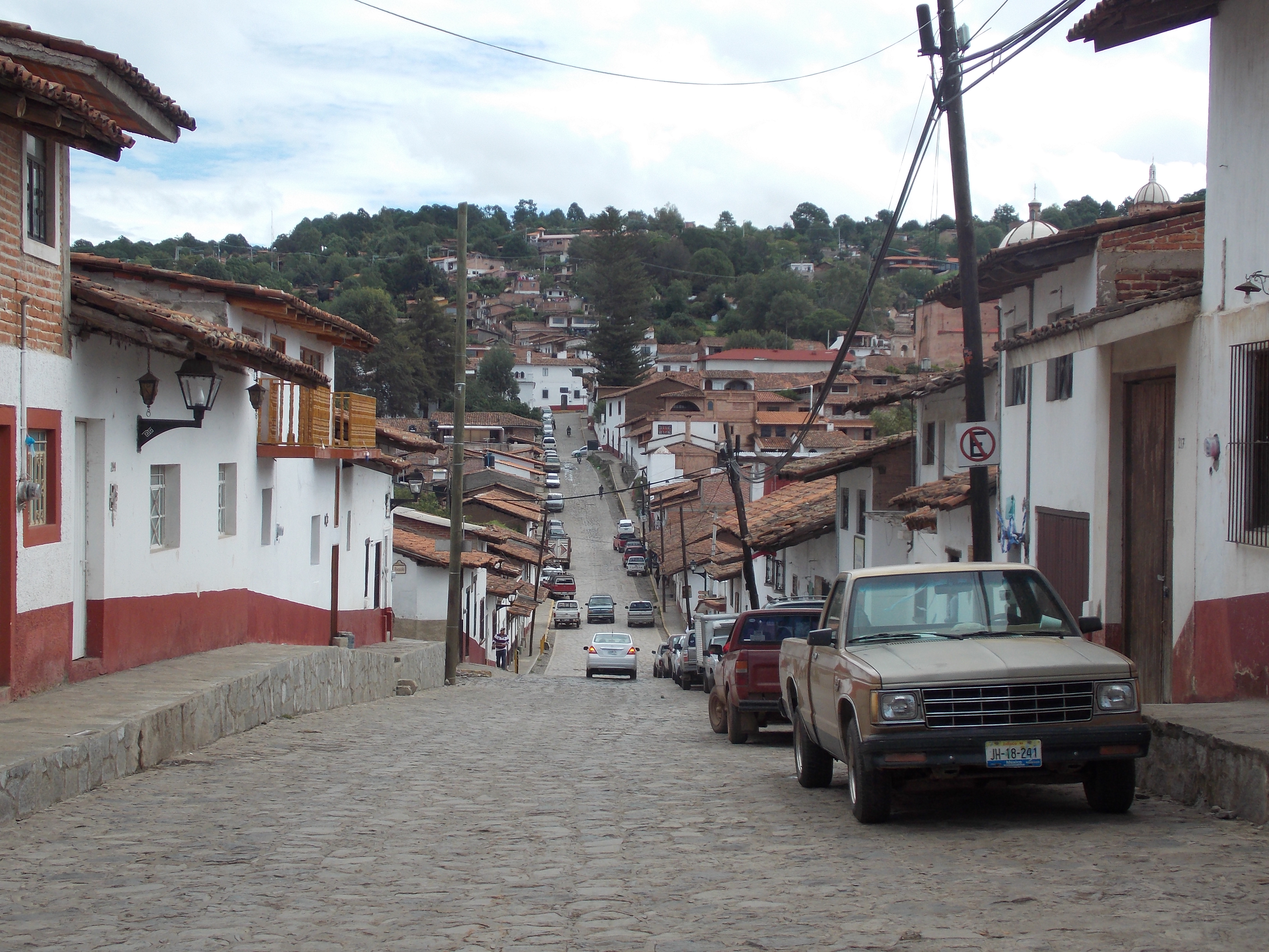 Traditional houses, streets in Tapalpa, Mexico